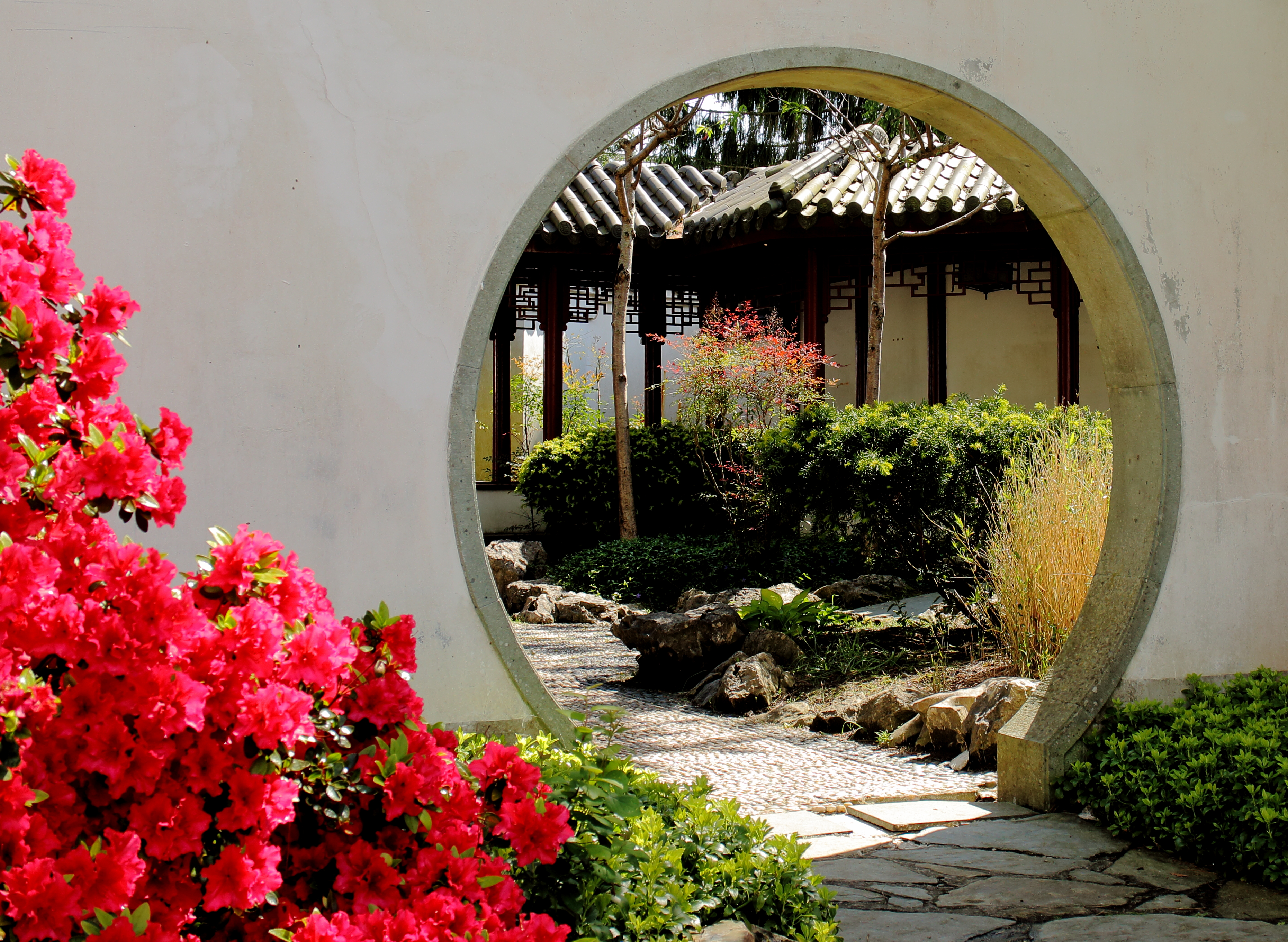 Doorkijkje. Location, Chinese garden, the Hidden Realm of Ming in the Hortus Haren in the Netherlands.